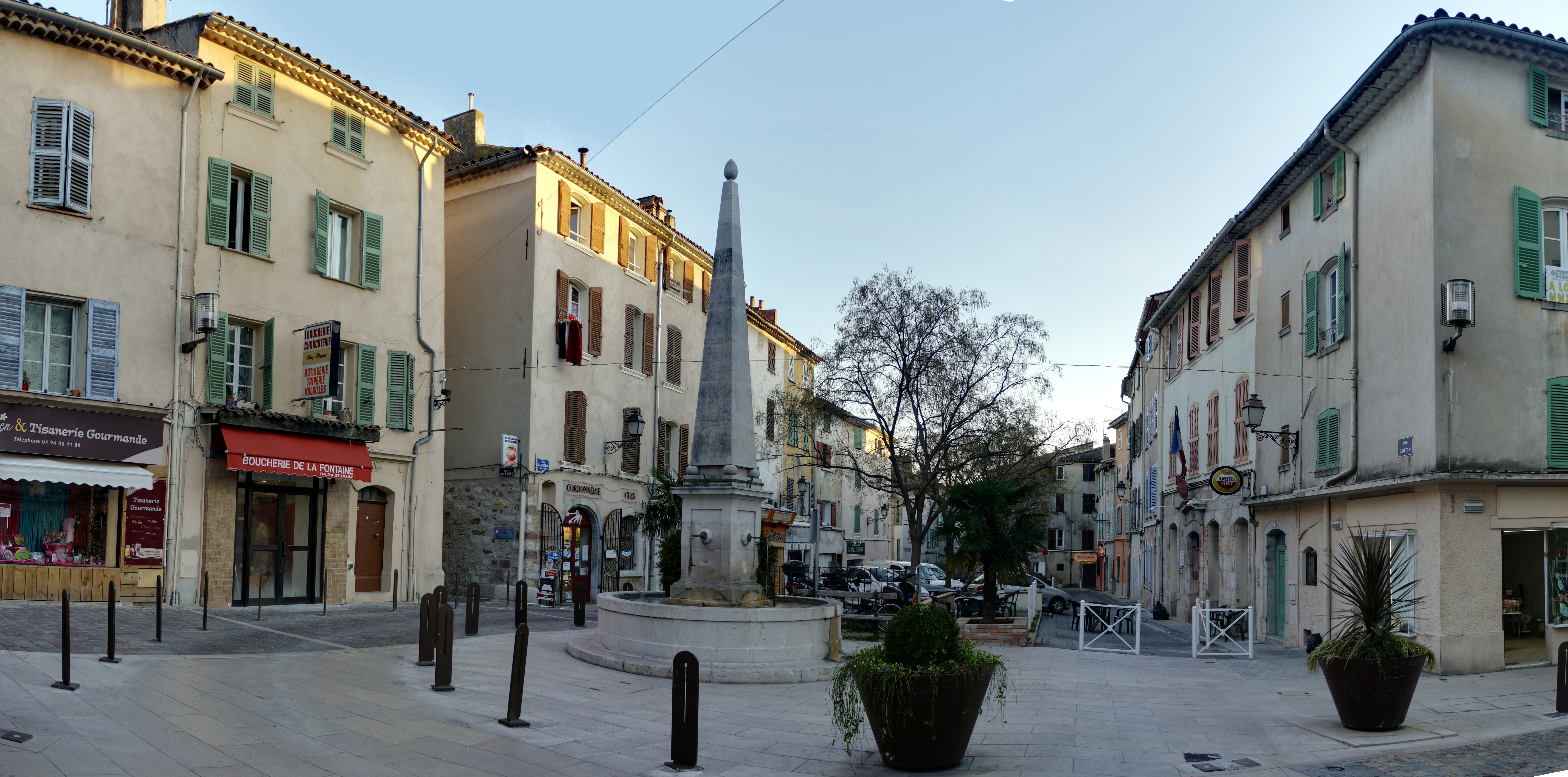 Photographs taken in La Valette du Var in France.